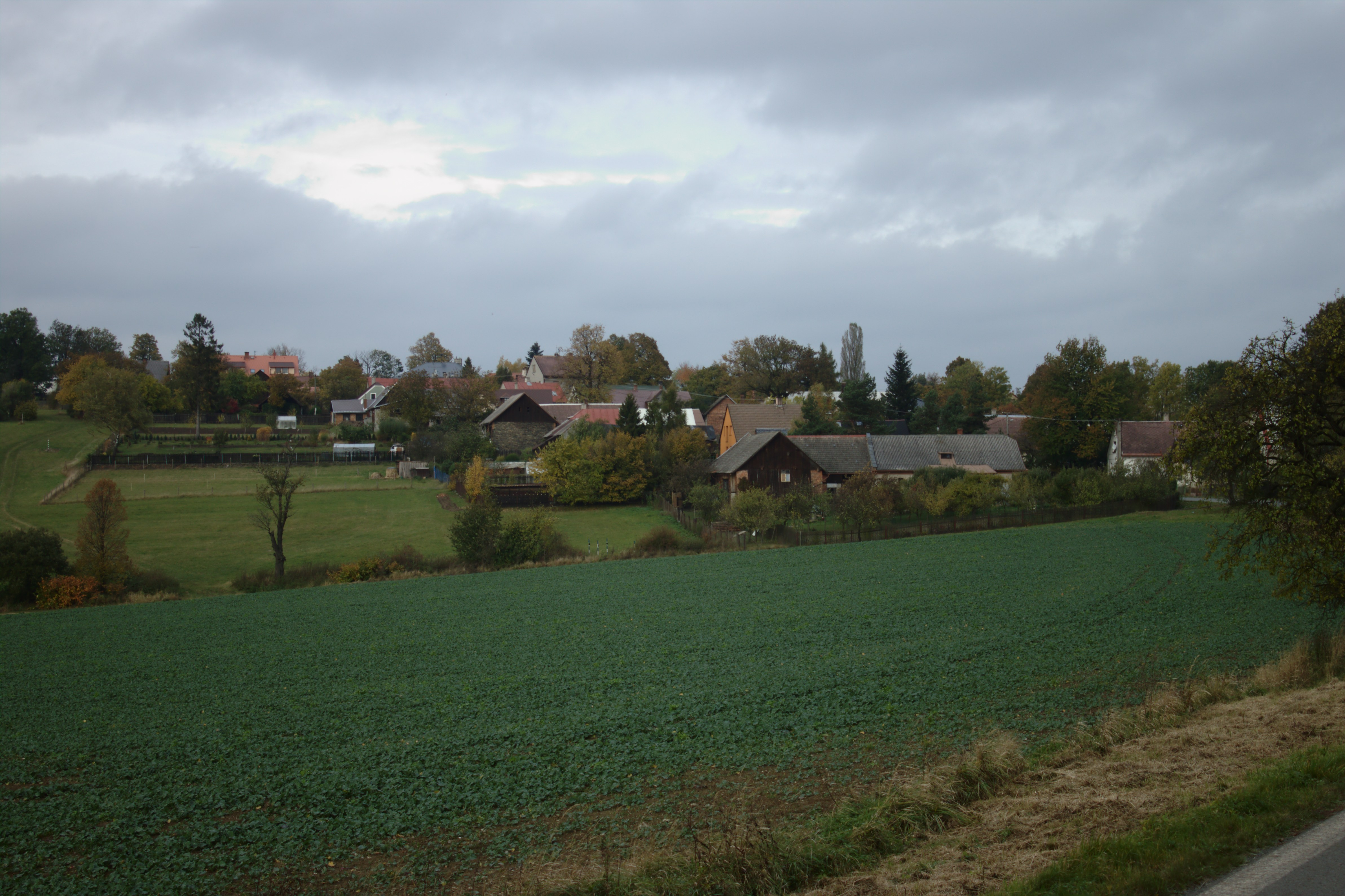 Southern limit of the village of Moravice, CZ